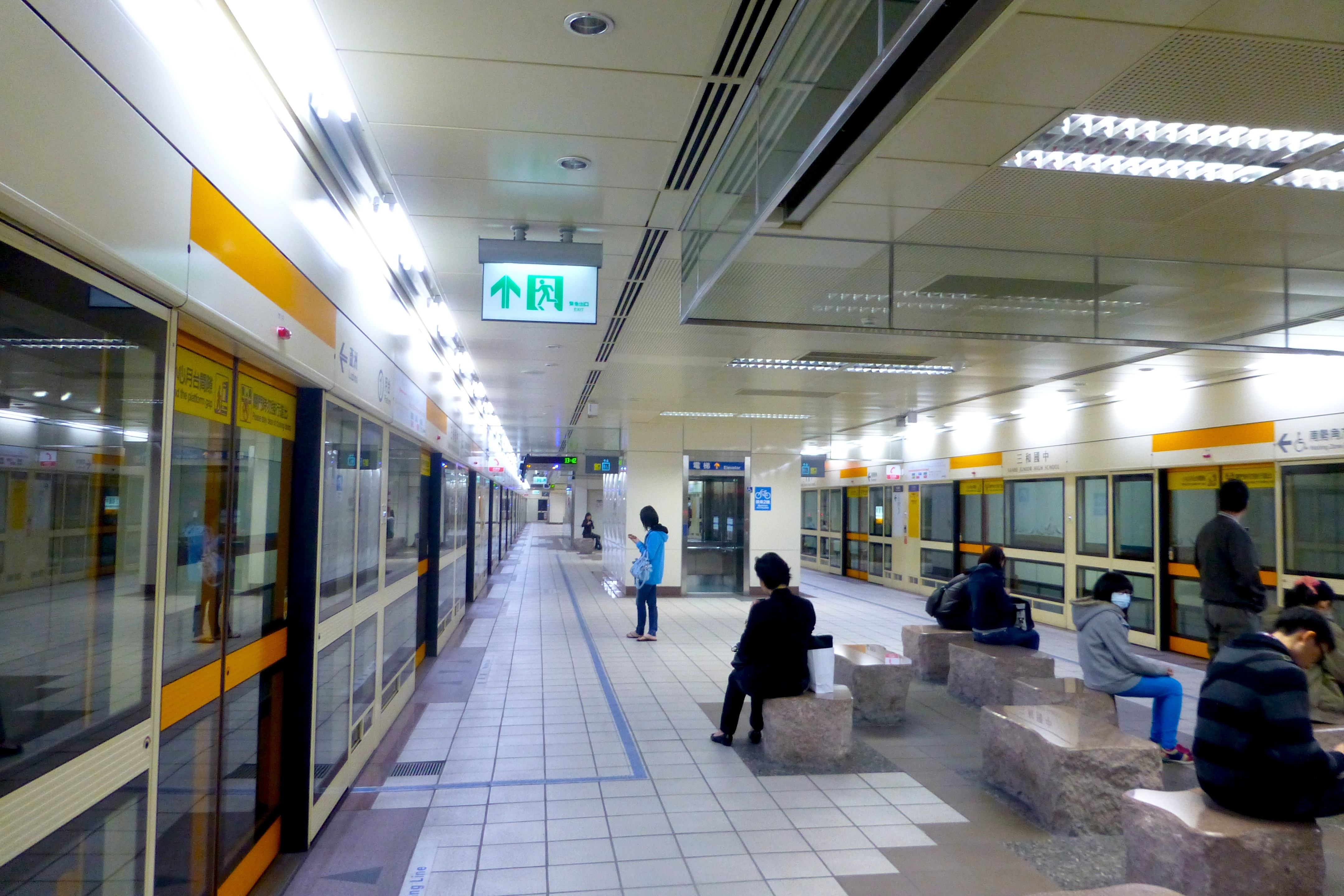 The Taipei Metro Sanhe Junior High School Station (三和國中車站) is a station on the Luzhou Line located in Sanchong District, New Taipei, Taiwan. This is the station platform.